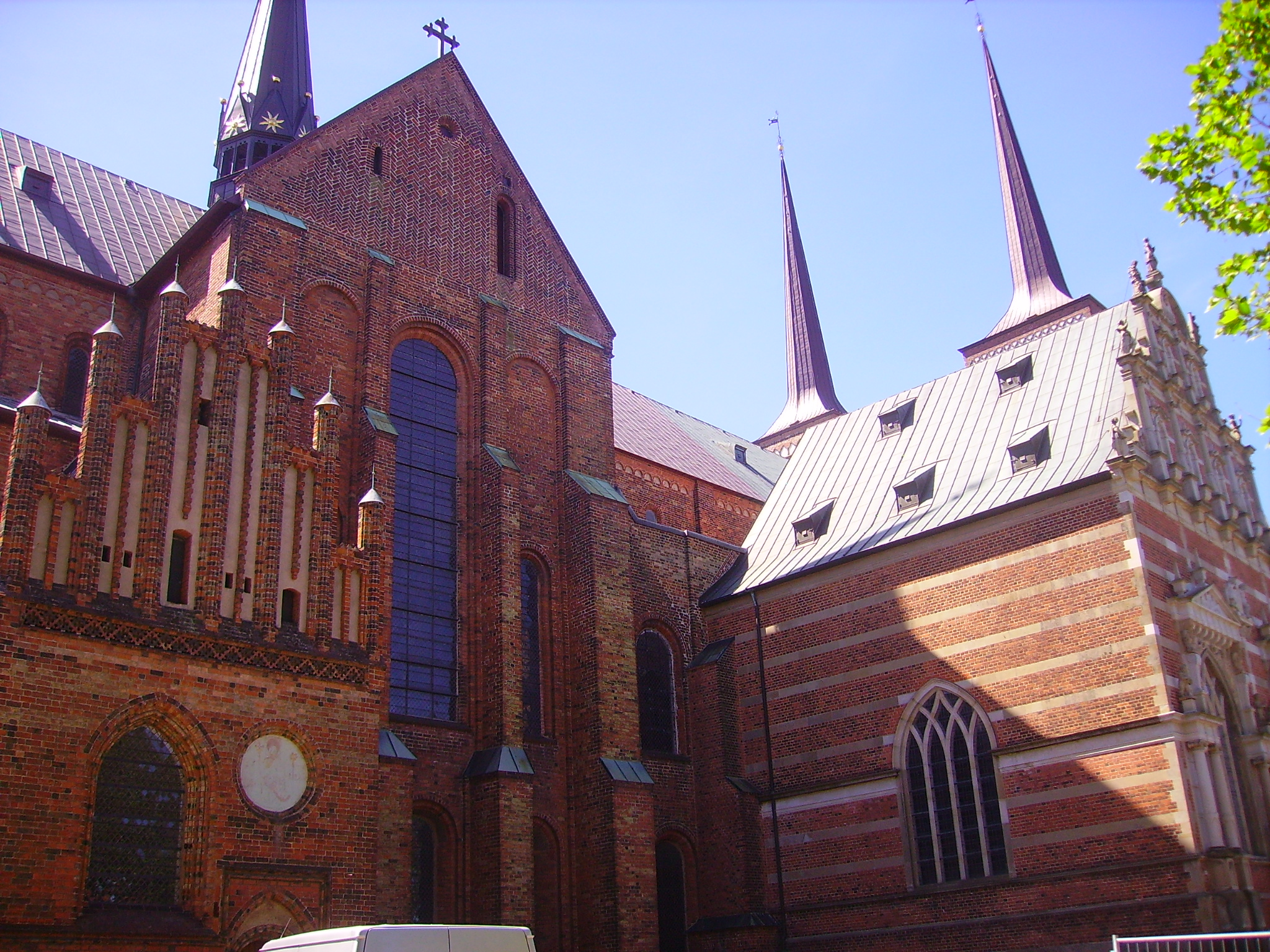 Cathedral, Roskilde